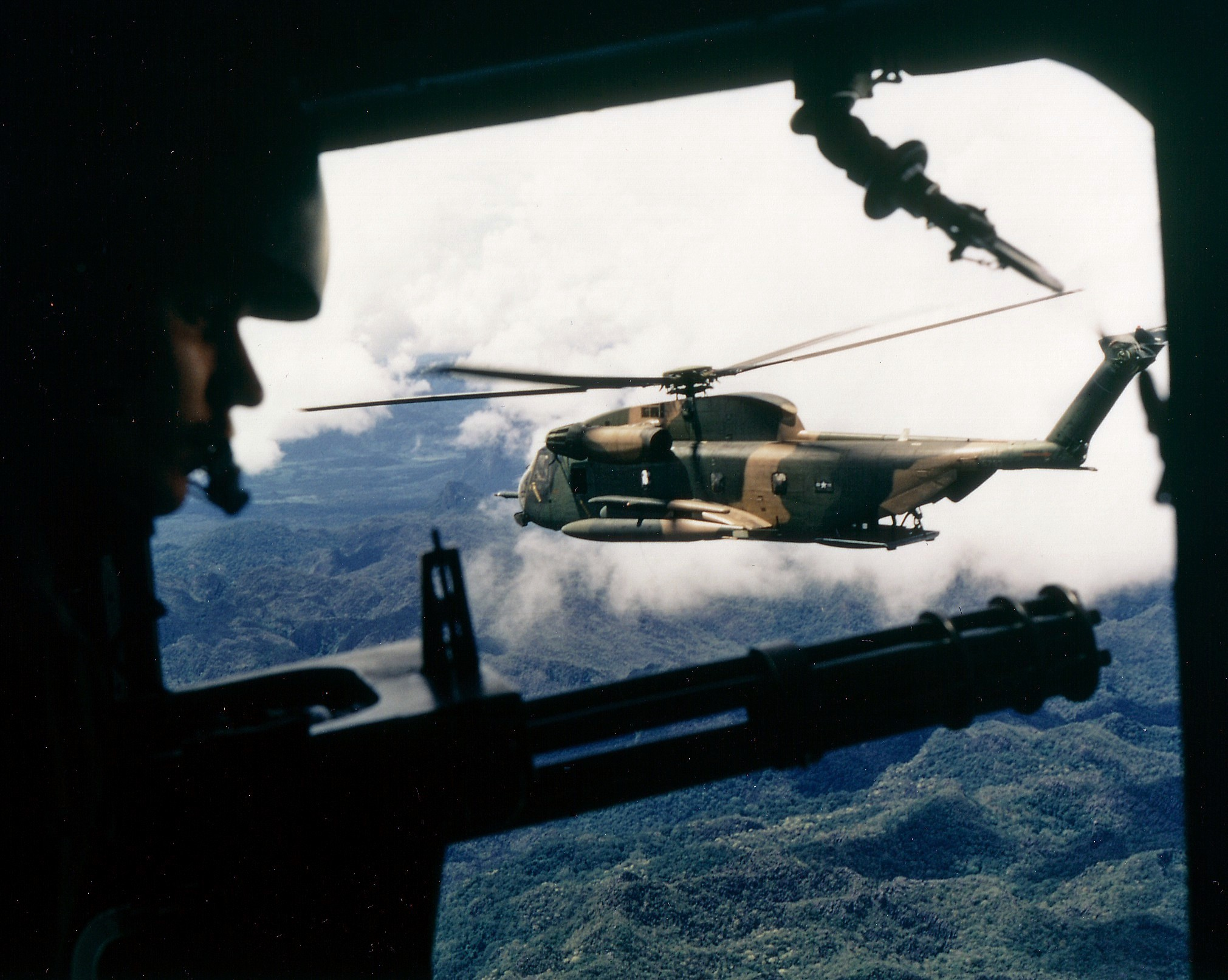 A U.S. Air Force Sikorsky HH-53 Super Jolly Green Giant helicopter of the 40th Aerospace Rescue and Recovery Squadron as seen from the flight engineer's position a helicopter of the 21st Special Operations Squadron, Vietnam, October 1972.